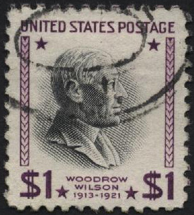 United States 1938-43 Presidental Series - $1 Woodrow Wilson